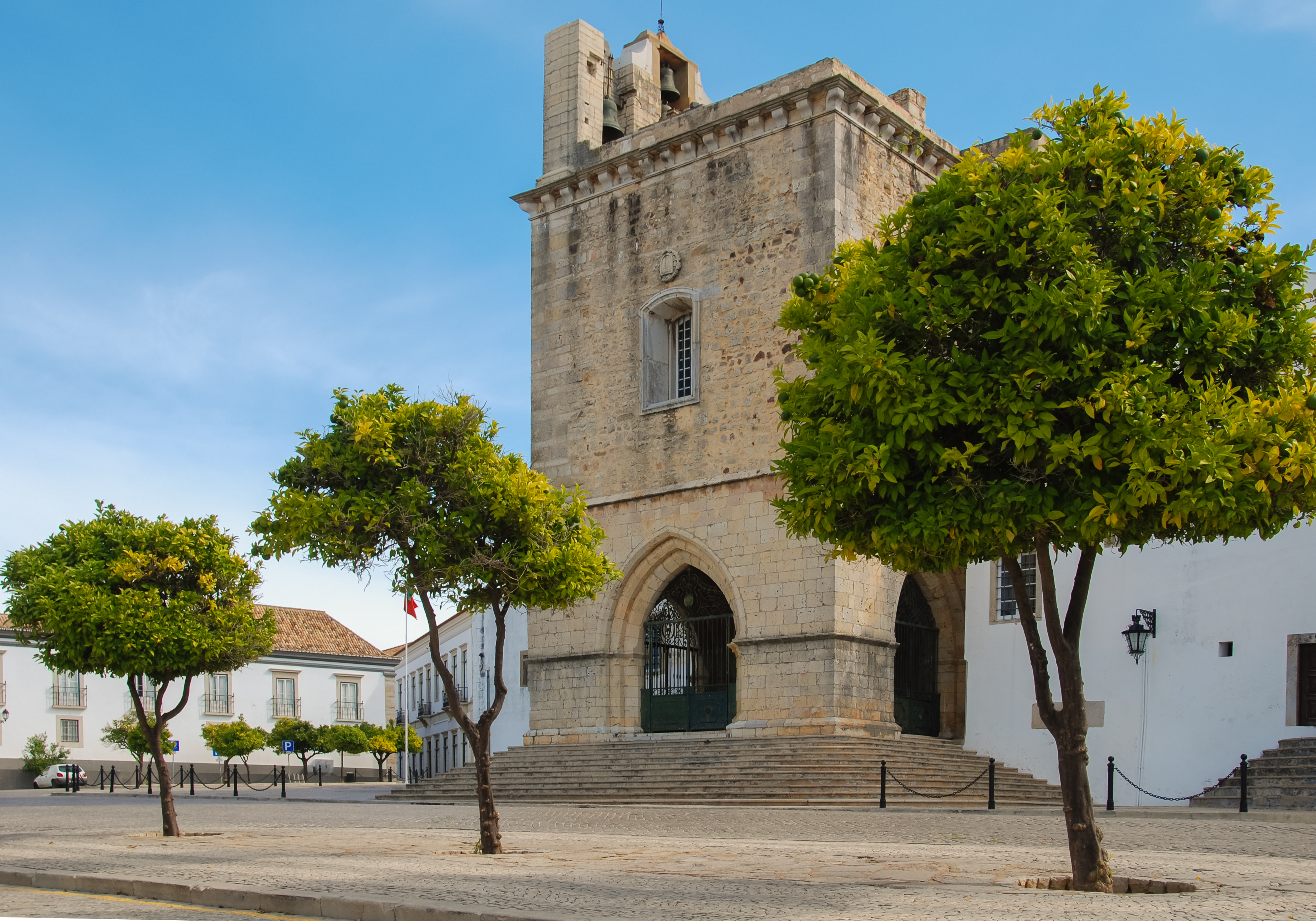 Cathedral in Faro Old Town